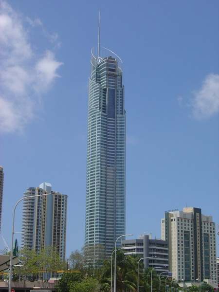 Bild:Q1 Gold Coast.jpg